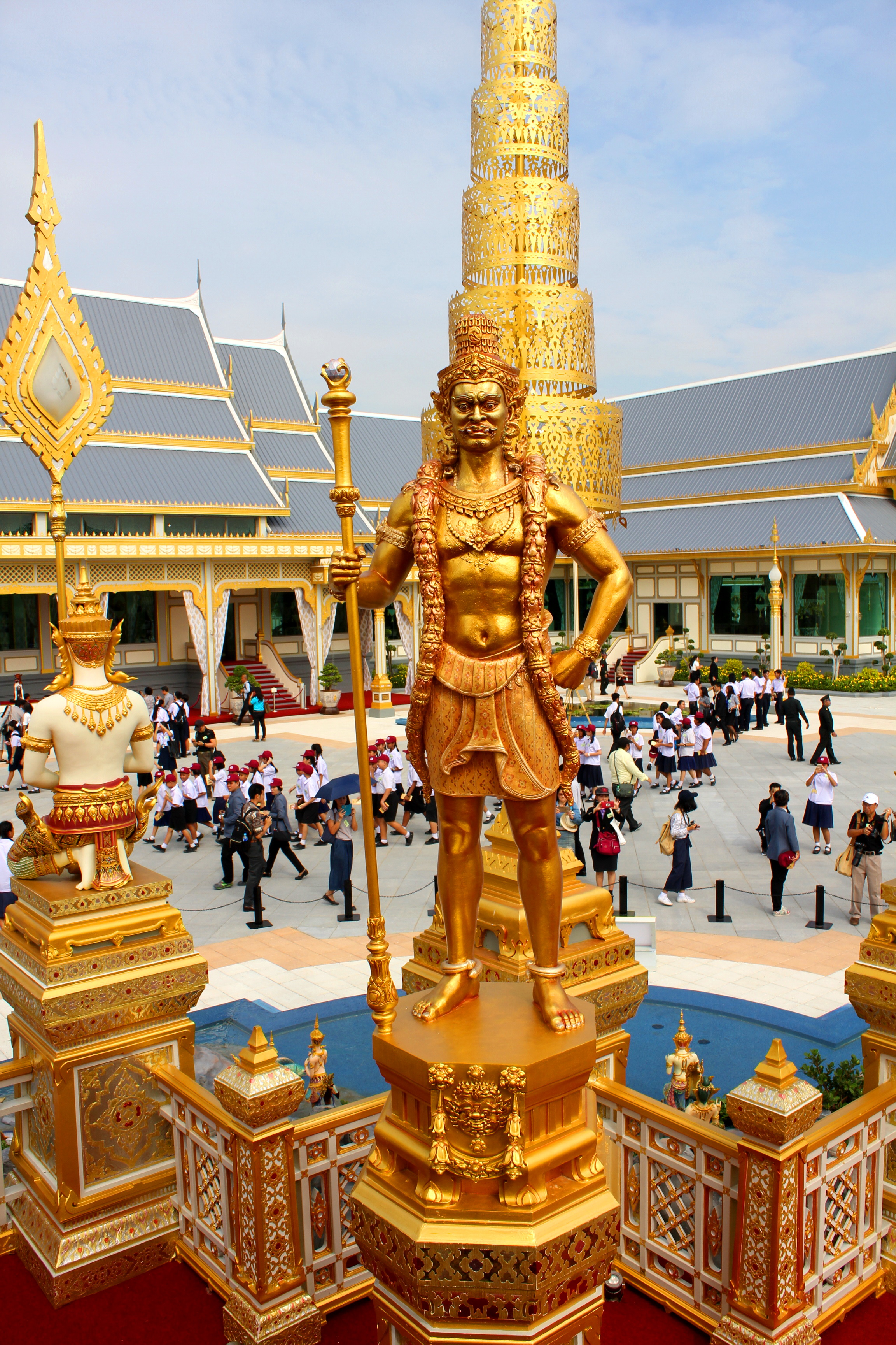 Royal Crematorium King Bhumibol Adulyadej of Thailand